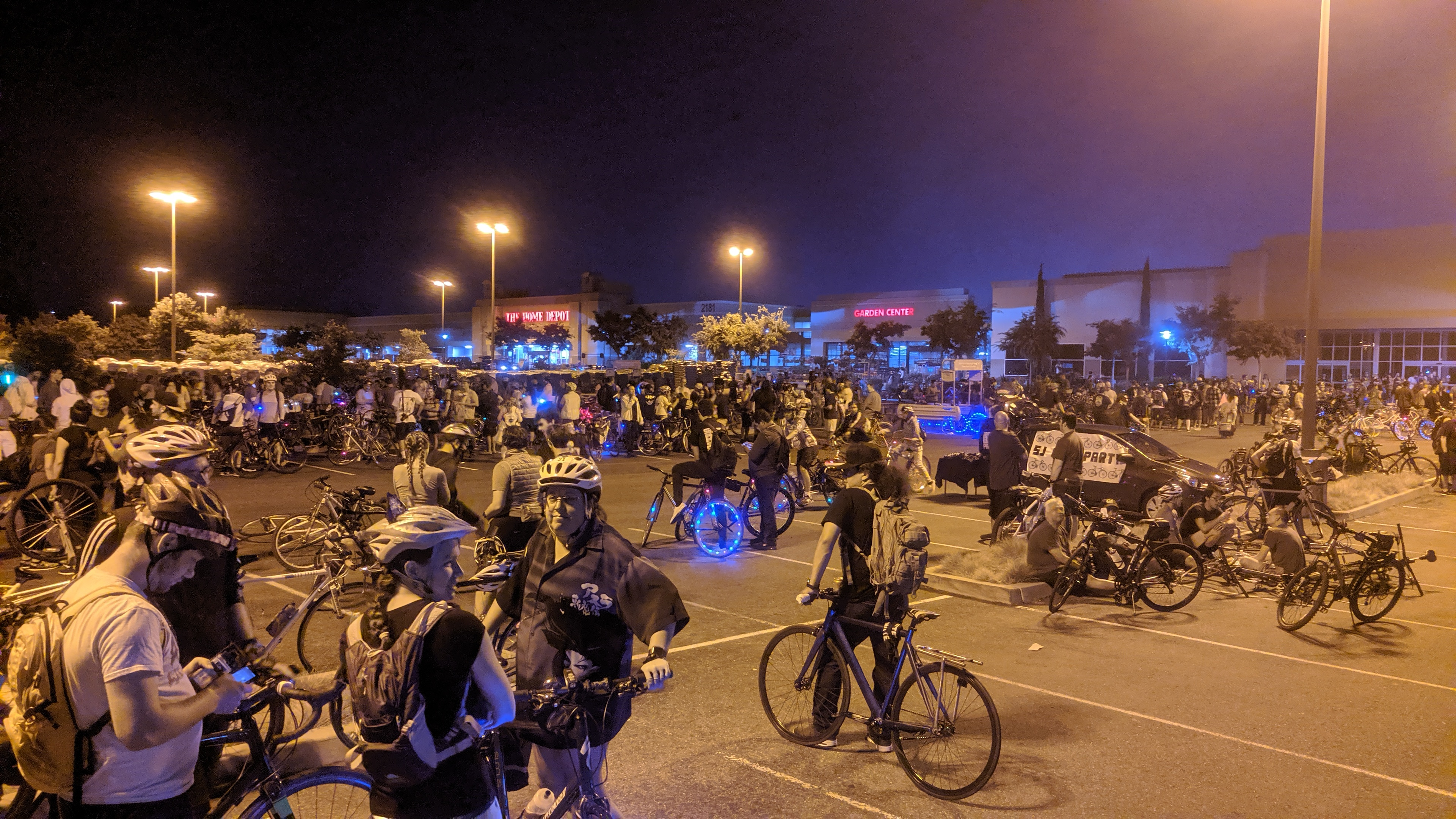 San Jose Bike Party at 1st Regroup Point at The Plant shopping center in South San Jose on June 21, 2019